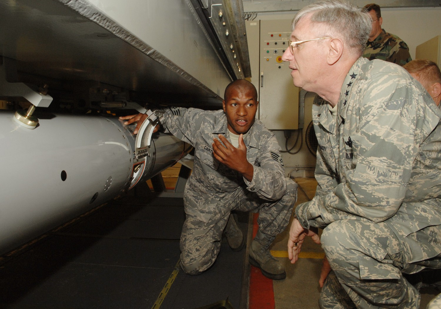 General Roger Brady, USAFE Commander, is shown B61 nuclear weapon disarming procedures on a “dummy” (inert training version) in an underground Weapons Security and Storage System (WS3) vault at Volkel Air Base, The Netherlands, on June 11, 2008.